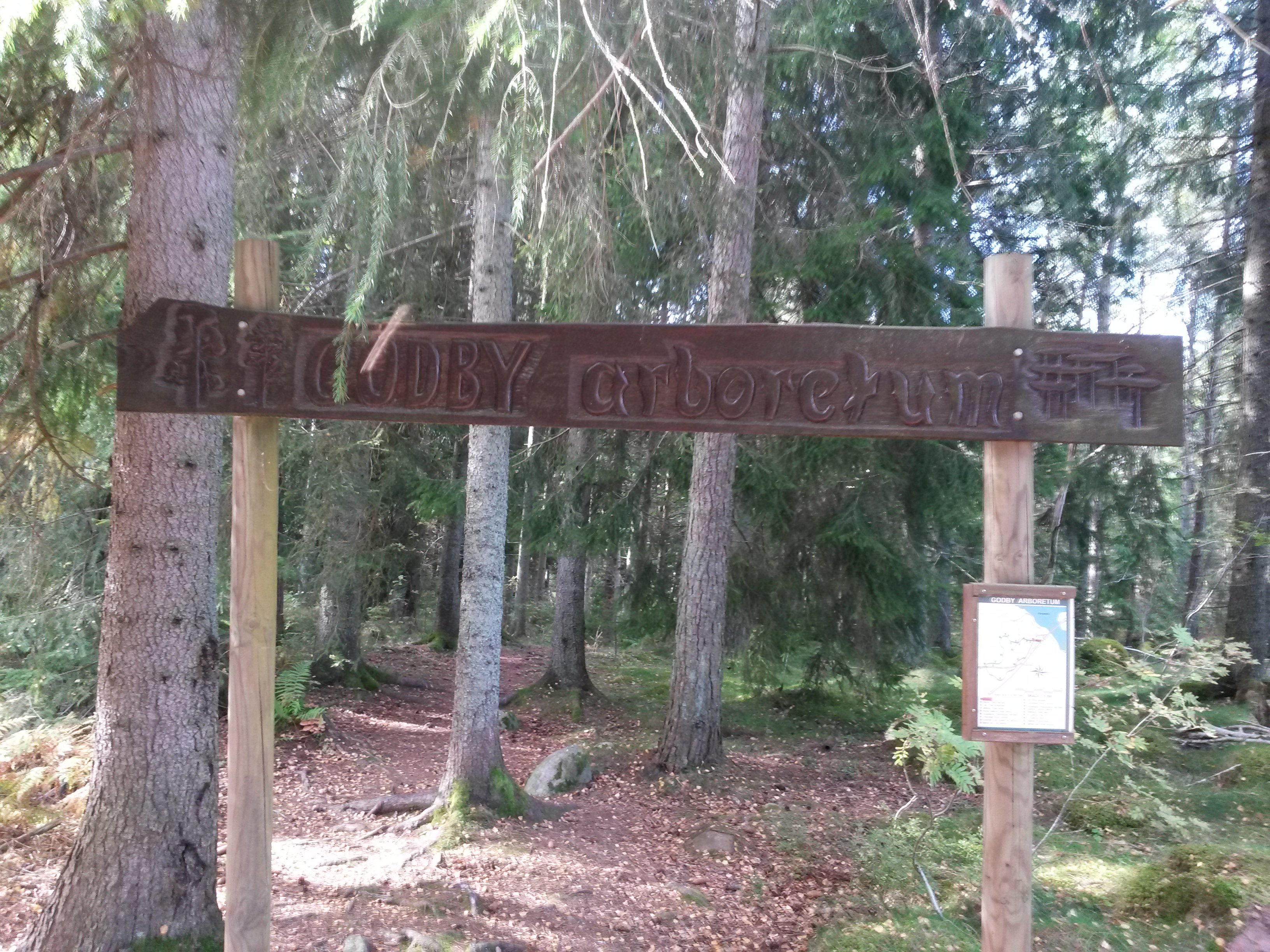 Entry to Godby arboretum in Godby, Finström, Åland Islands.